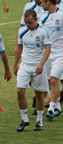 English football player, Jay Spearing, during Liverpool FC pre-season training in Singapore.